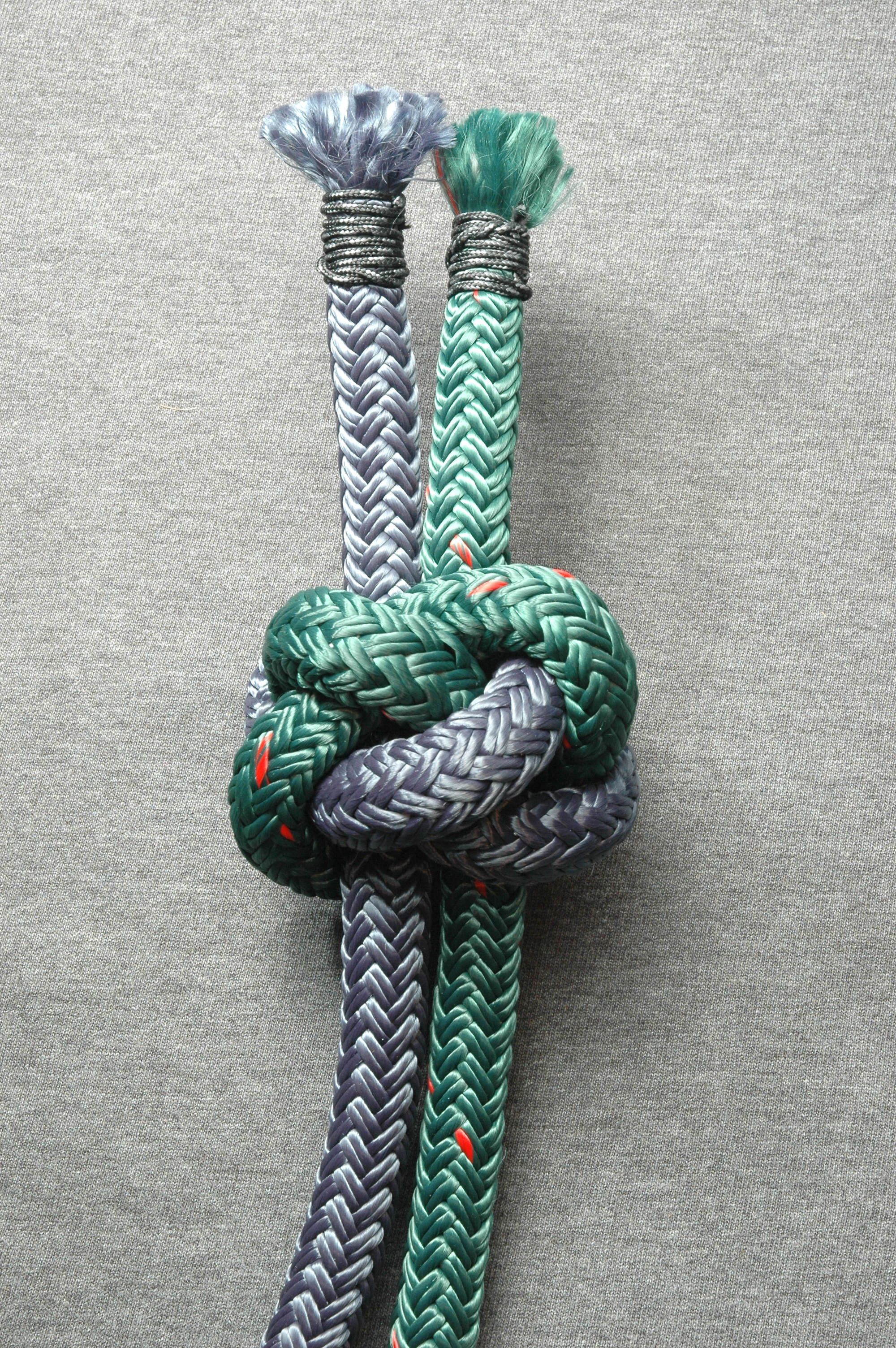 Completed Diamond knot (or Knife lanyard knot).